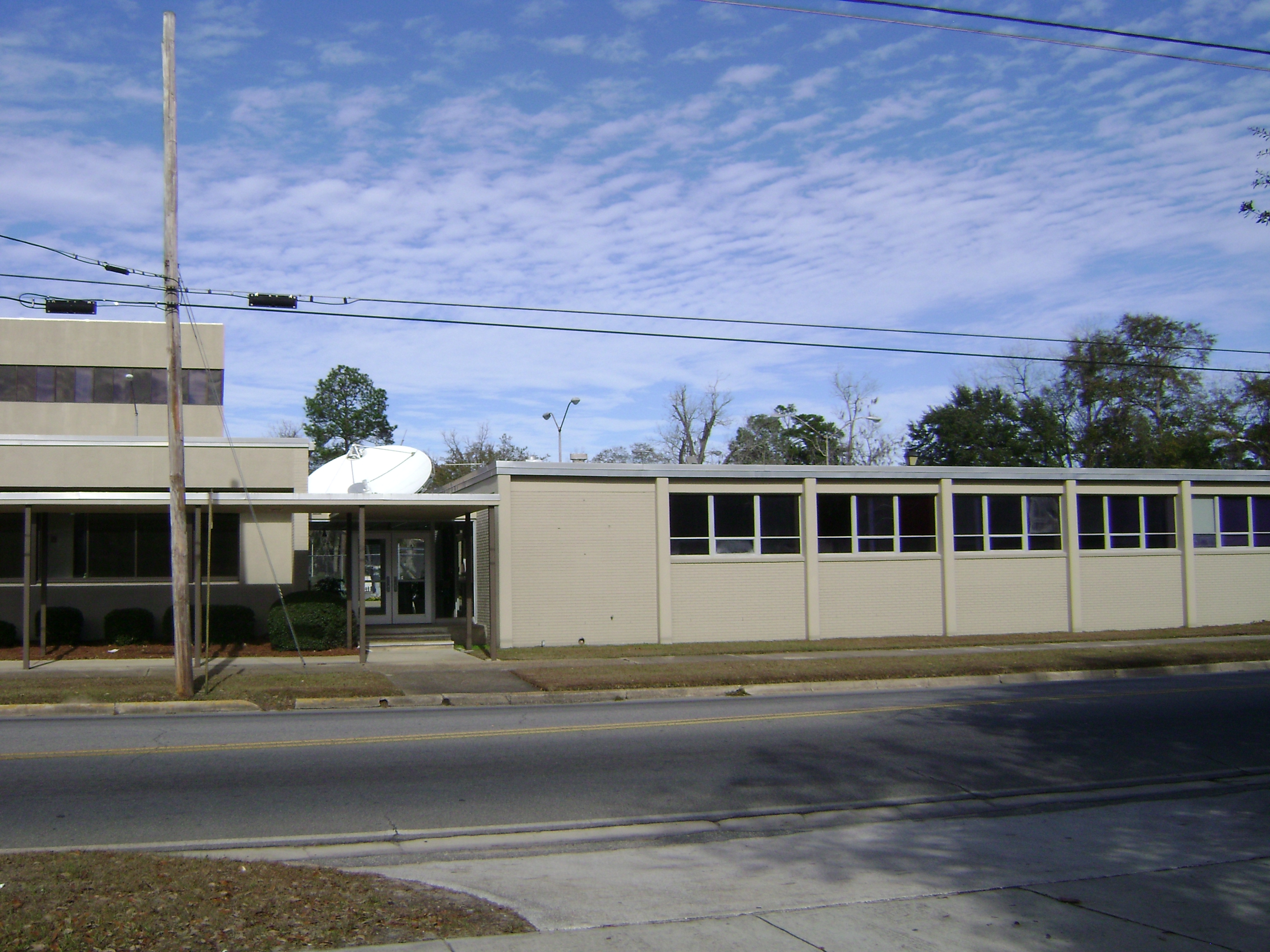 Family Works - Family Therapy Clinic - VSU